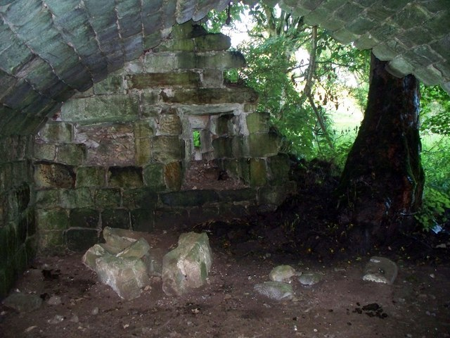 Overgrass Tower The remains of this listed building. The Overgrass tower, view taken from inside the vaulted ground floor, looking out.